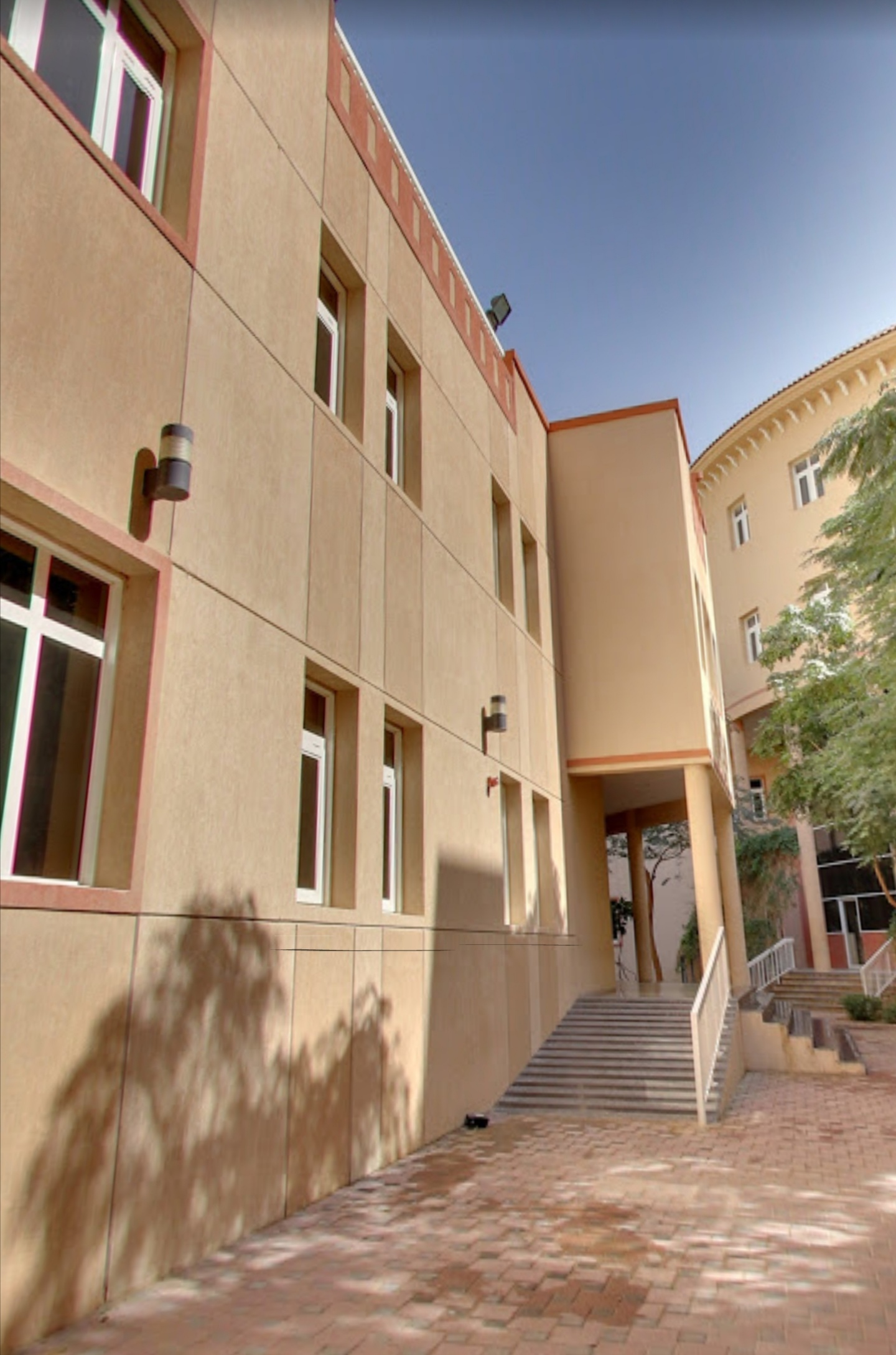 Library block behind the main building. It has 2 floors